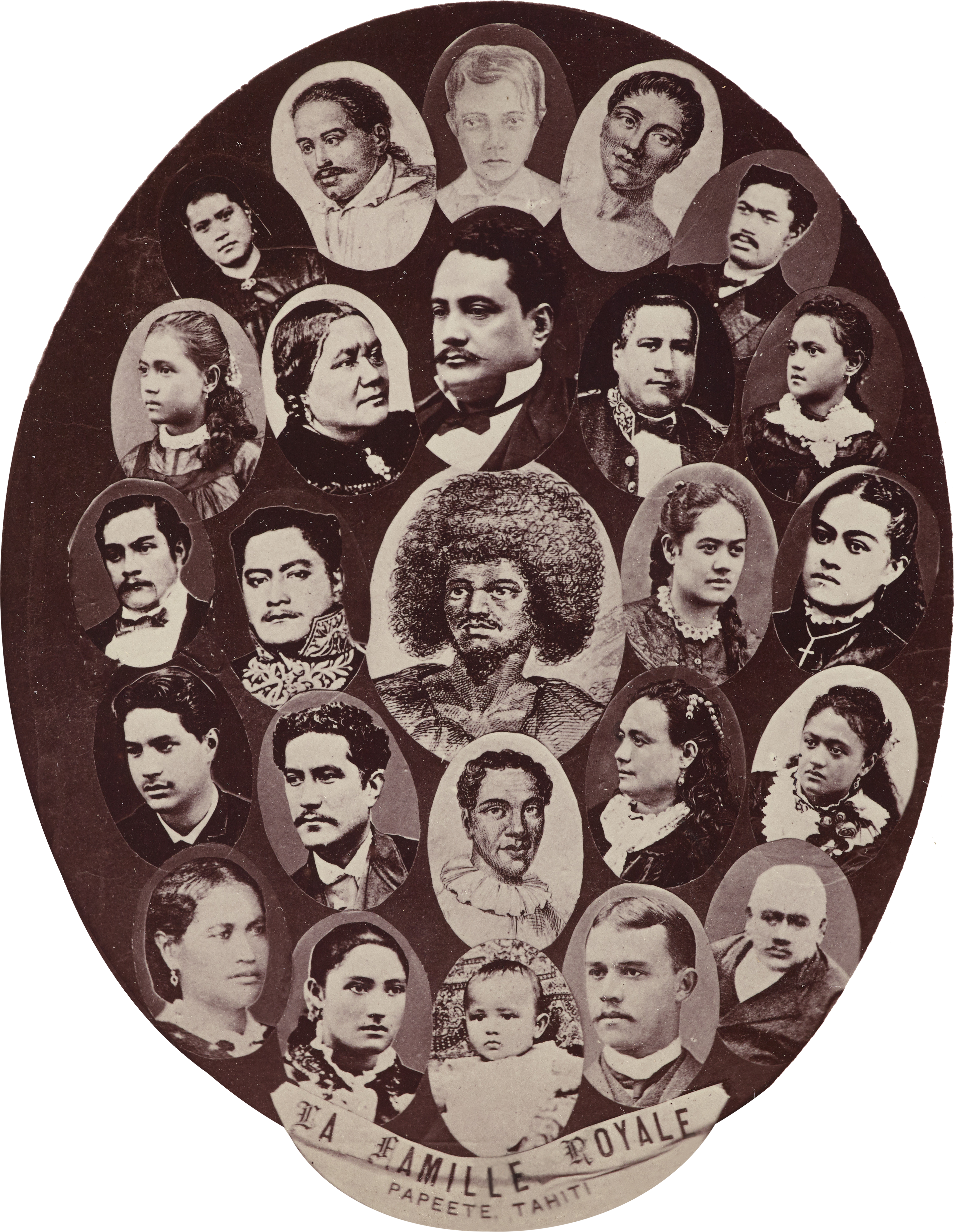 The Royal Family of Tahiti, Compiled by French photographer Madame Hoare in 1885 from earlier photographs and paintings by others and photographs taken by herself. This version is a reprint from a 1906 book.